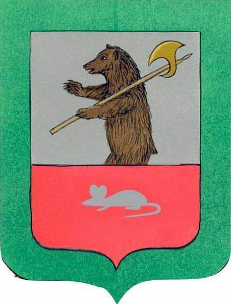 Coat of Arms of Myshkin (2007)